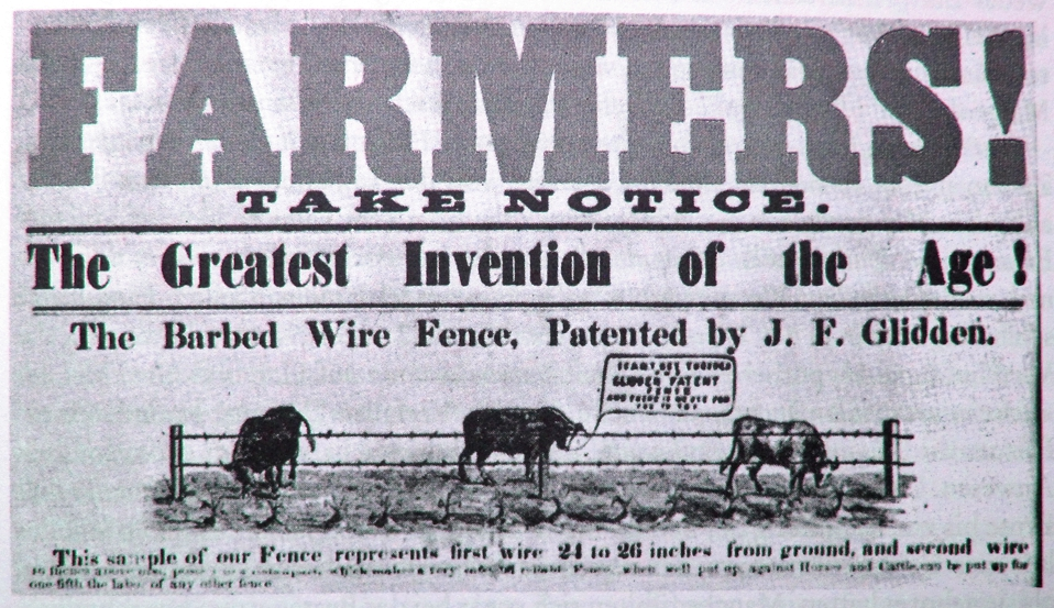 Advertising in an unknown newspaper of the Texas area (1874); I took the picture myself in 2015.